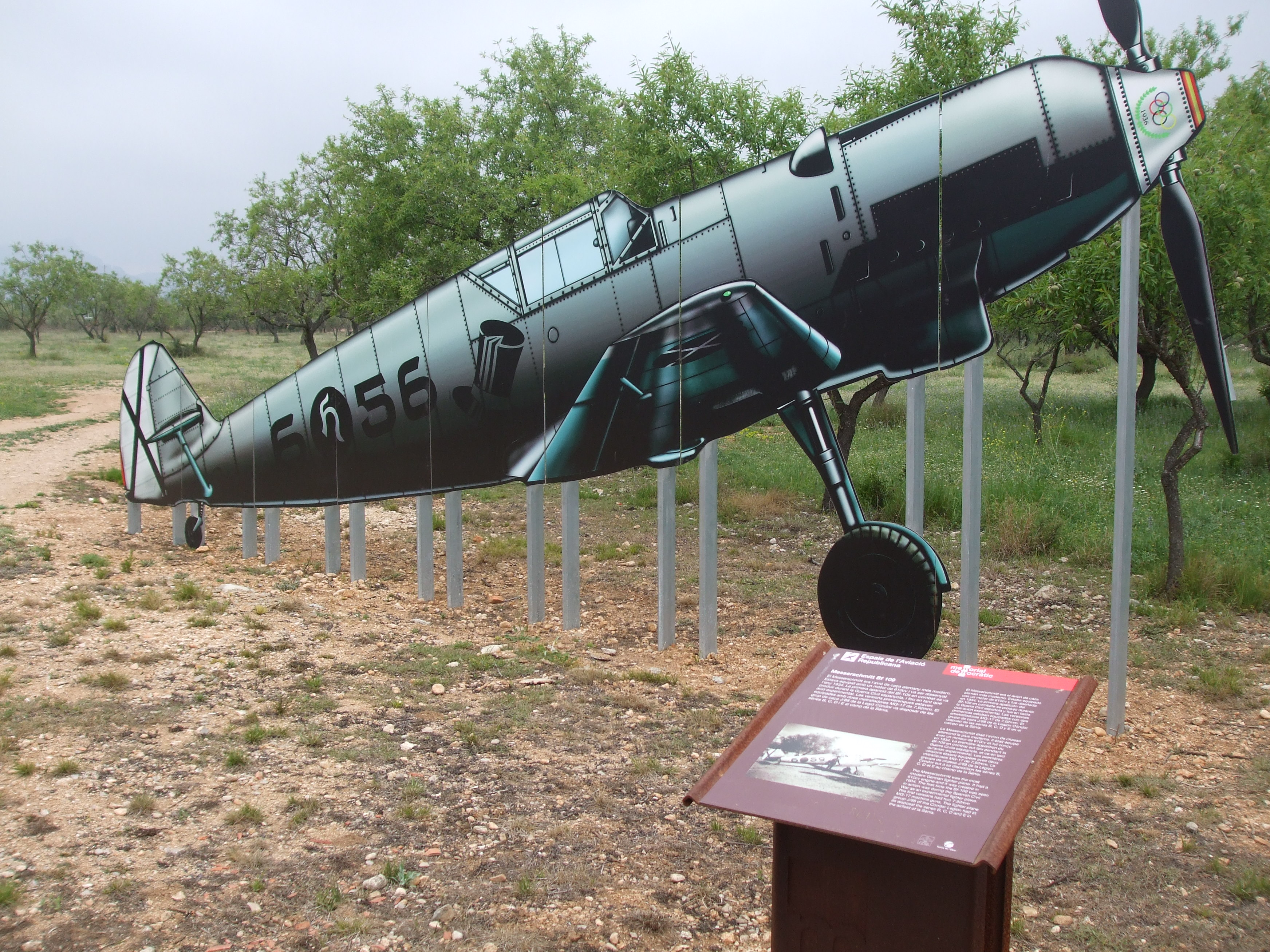 The museum at the former Spanish civil war airfield at La Sénia in the very south of the Catalonia region features this two-dimensional mock-up of the Bf 109B-2 as flown by Harro Harder, commander of Fighter Group 88 of the Legion Condor and participant at the 1936 Olympic Games.